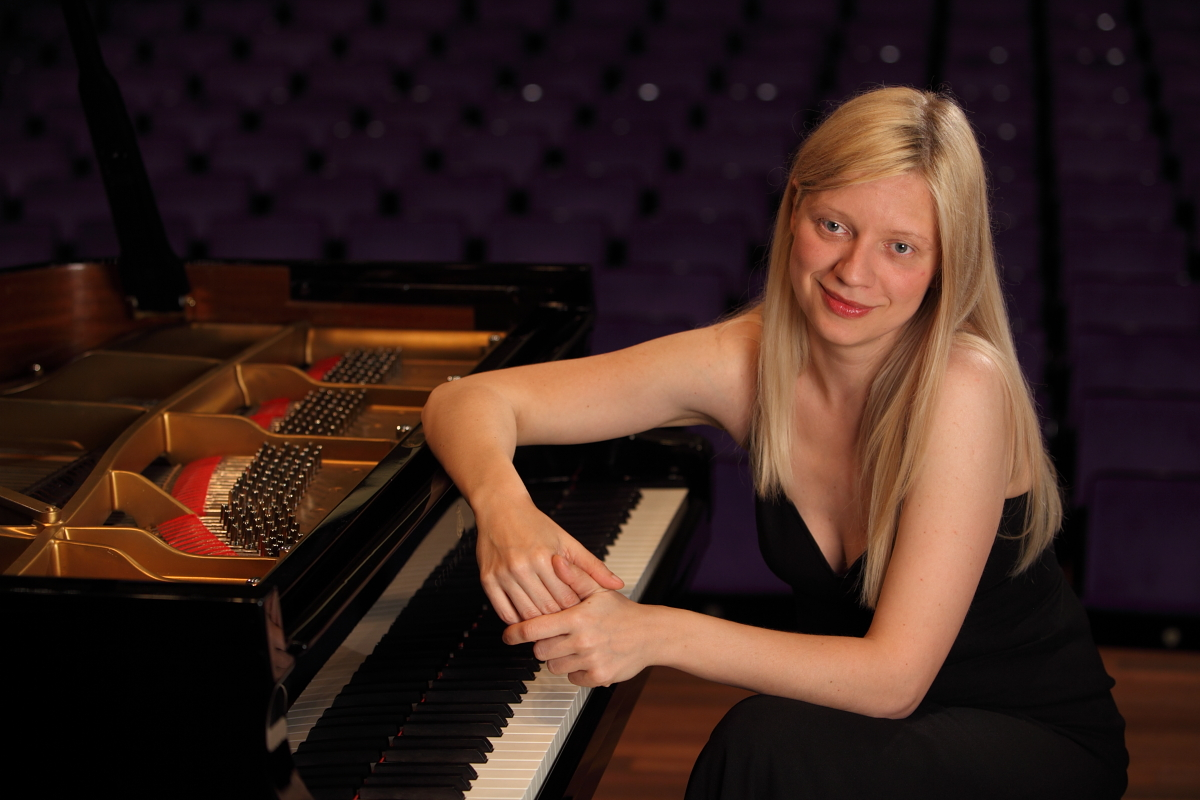 Pianist Valentina Lisitsa during an interview in Leiden, Netherlands